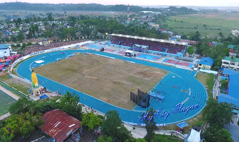 Ilagan City hosts the 12th SEA Youth Athletic Championship Games at Ilagan City Sports Complex last March 26-28, 2017. Owned by Ilagan Local Government Unit and its government website, and this photo is public domain.